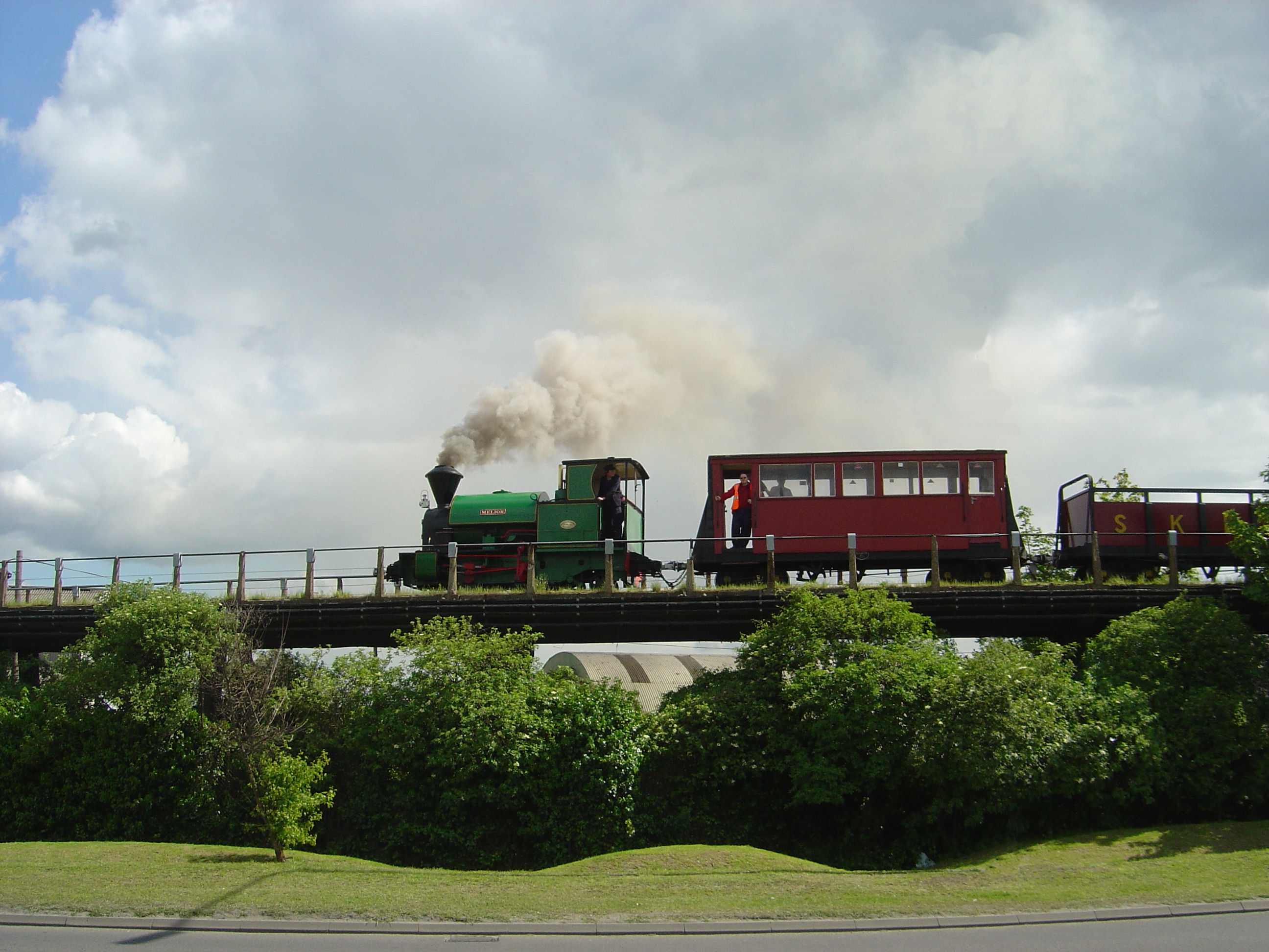 Melior heads a passenger train to Kemsley Down over Milton Regis Viaduct. The locomotive now runs chimney-first towards Sittingbourne Viaduct.